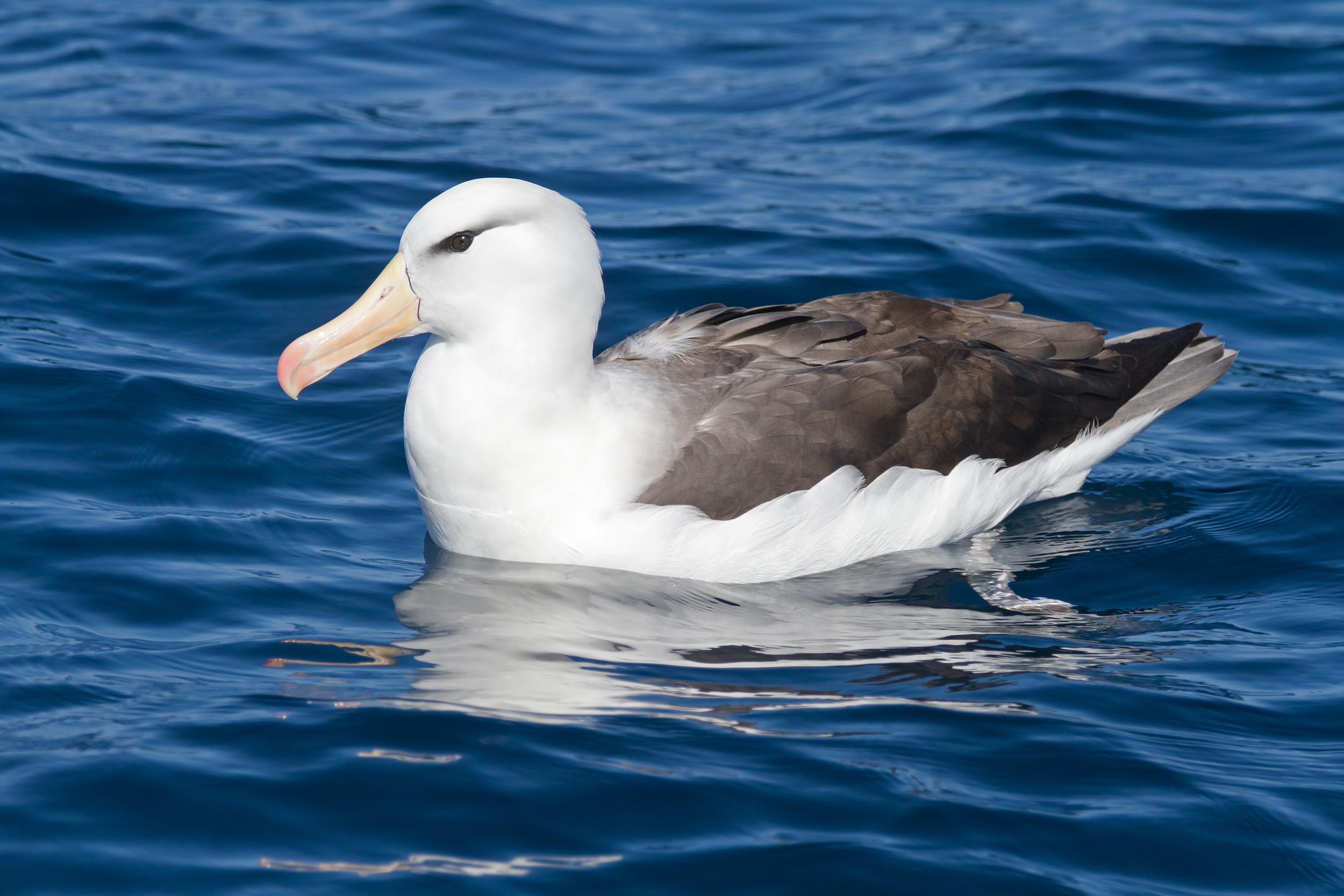 Black-browed Albatross (Thalassarche melanophrys), East of the Tasman Peninsula, Tasmania, Australia